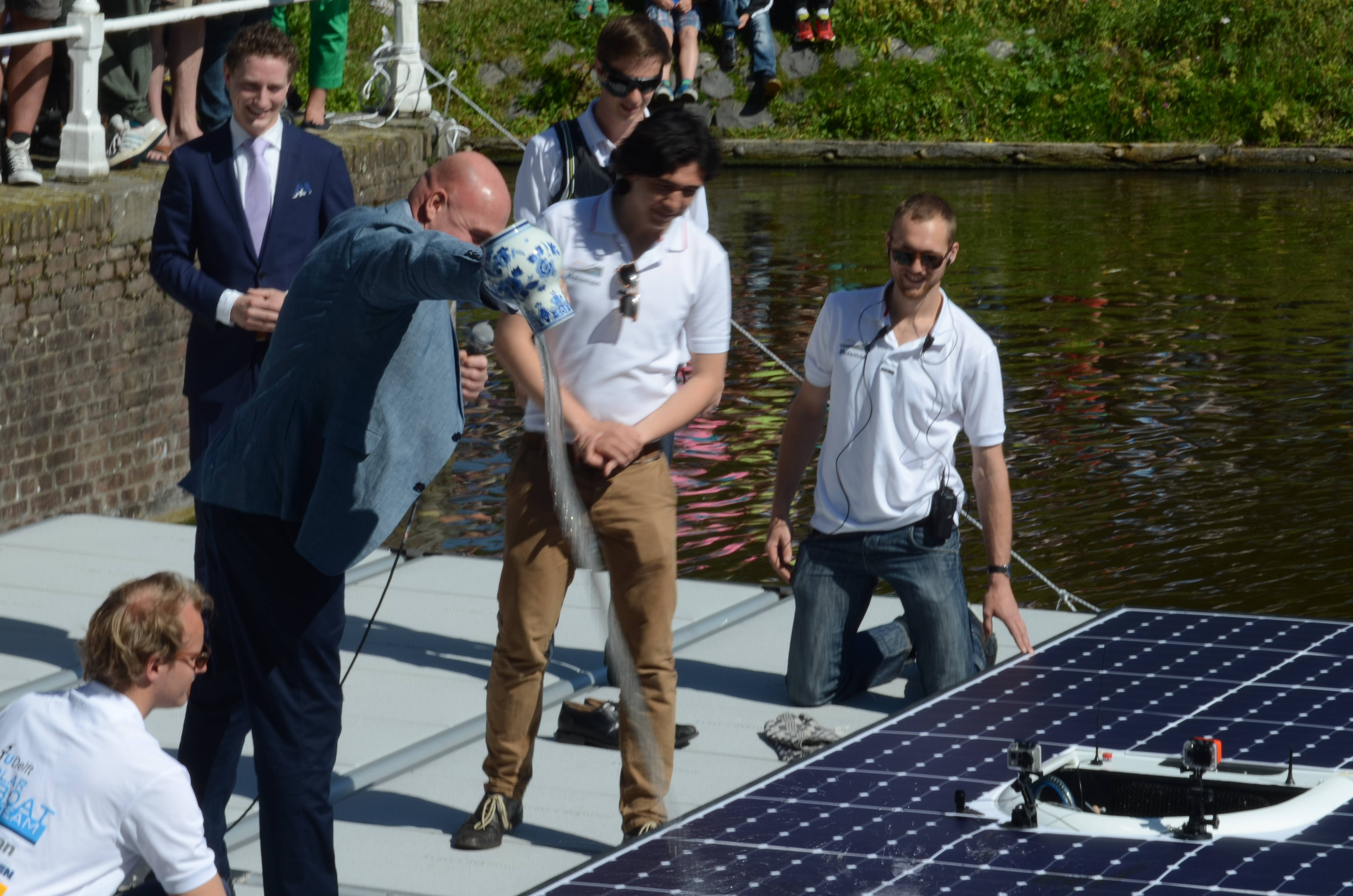 Andé Kuipers baptises TU Delft Solar Boat 2014